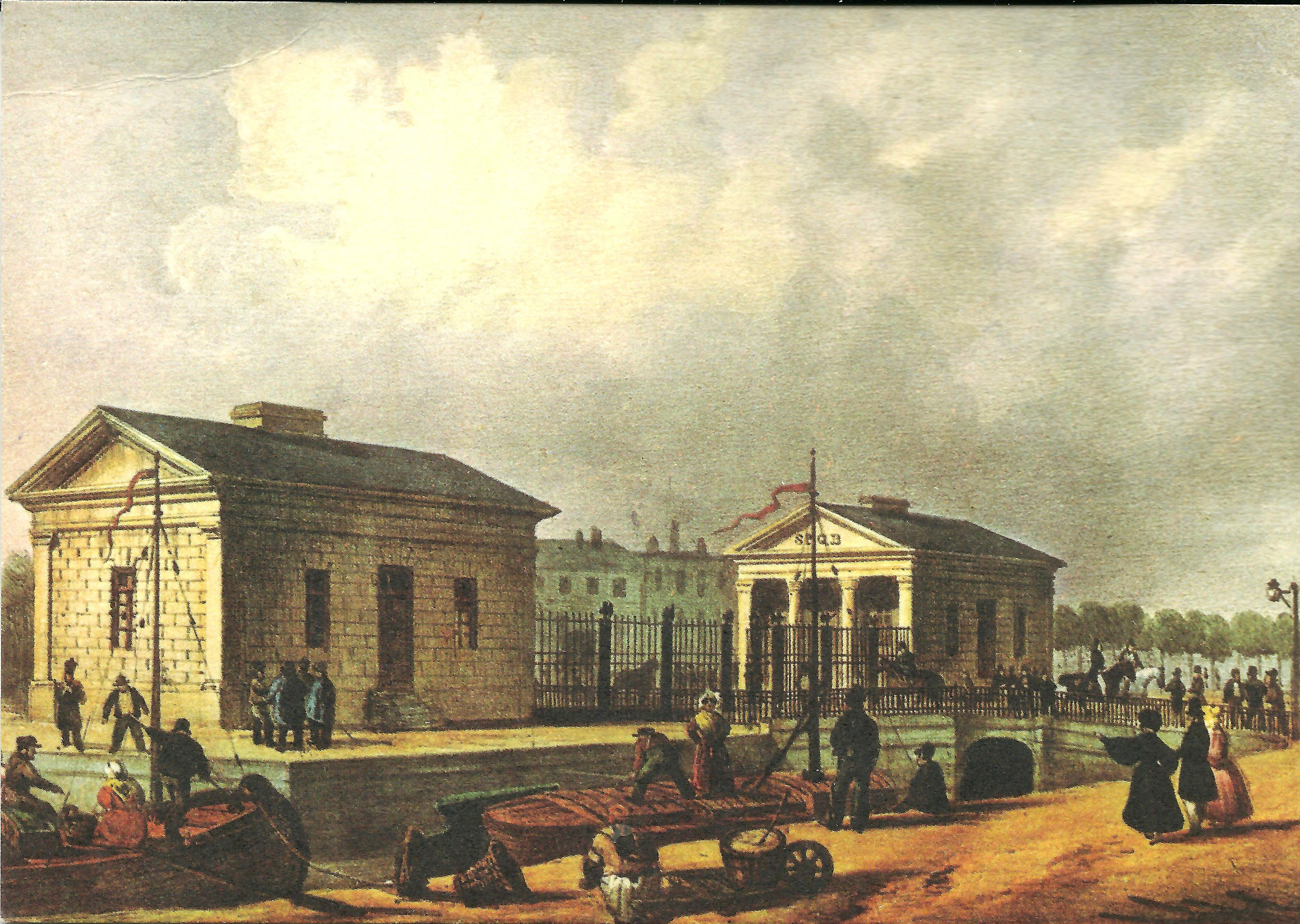 postcard depicting a 19th century painting of the "Vlaamse Poort" (Flemish Gate) in Brussels